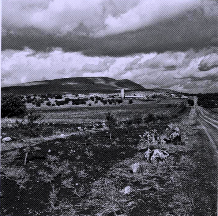 Kibuz Yiftah. Was Photograohed by Fritz Schlesinger.